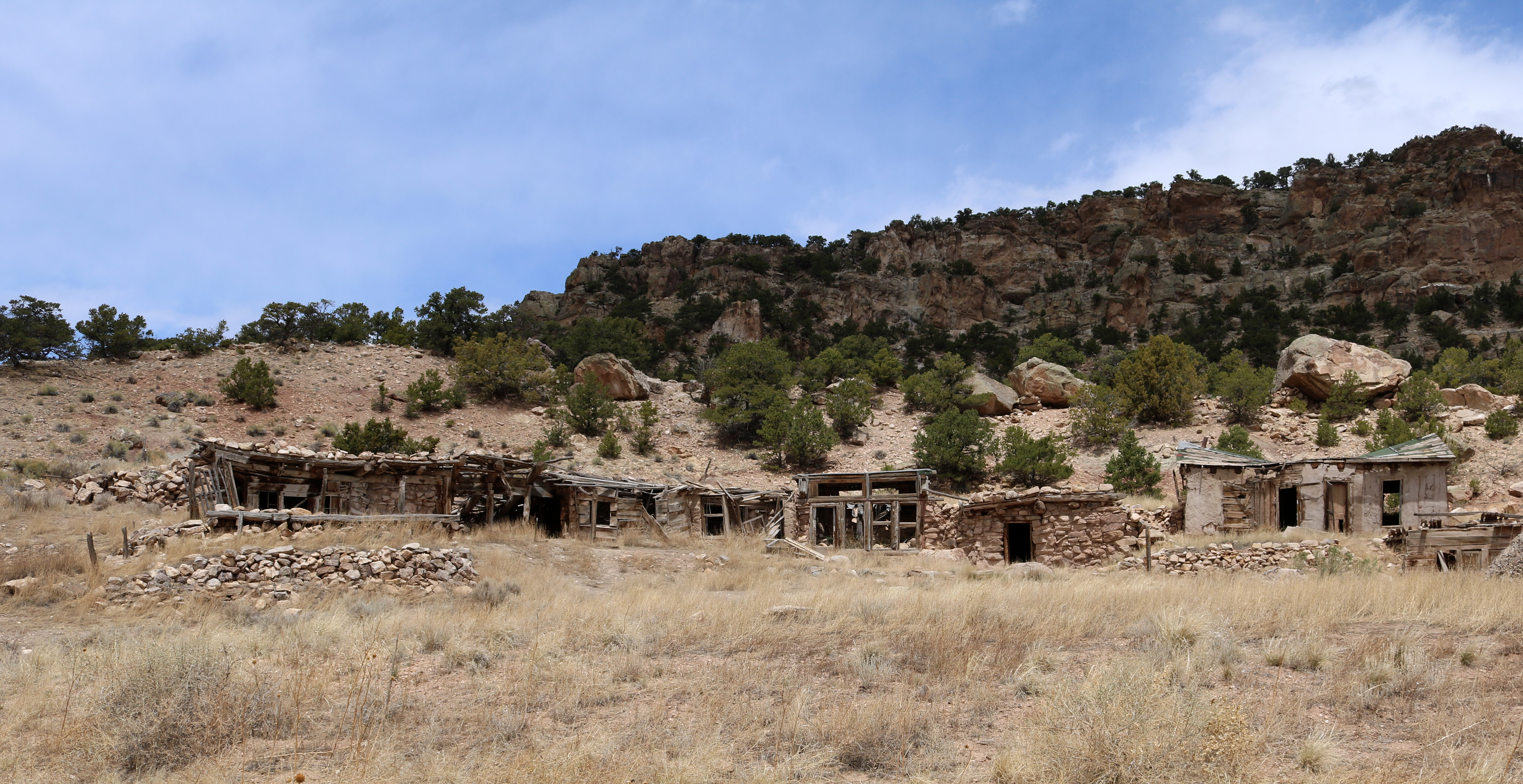 Some old and abandoned dwellings in Red Wing, Colorado. The view is from Huerfano County Road 580.